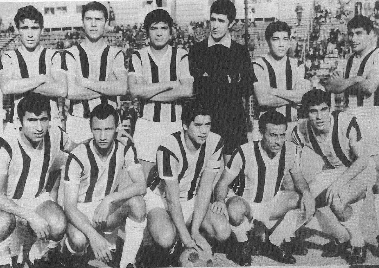 The Almagro squad of Buenos Aires that won the Primera B title in 1968.